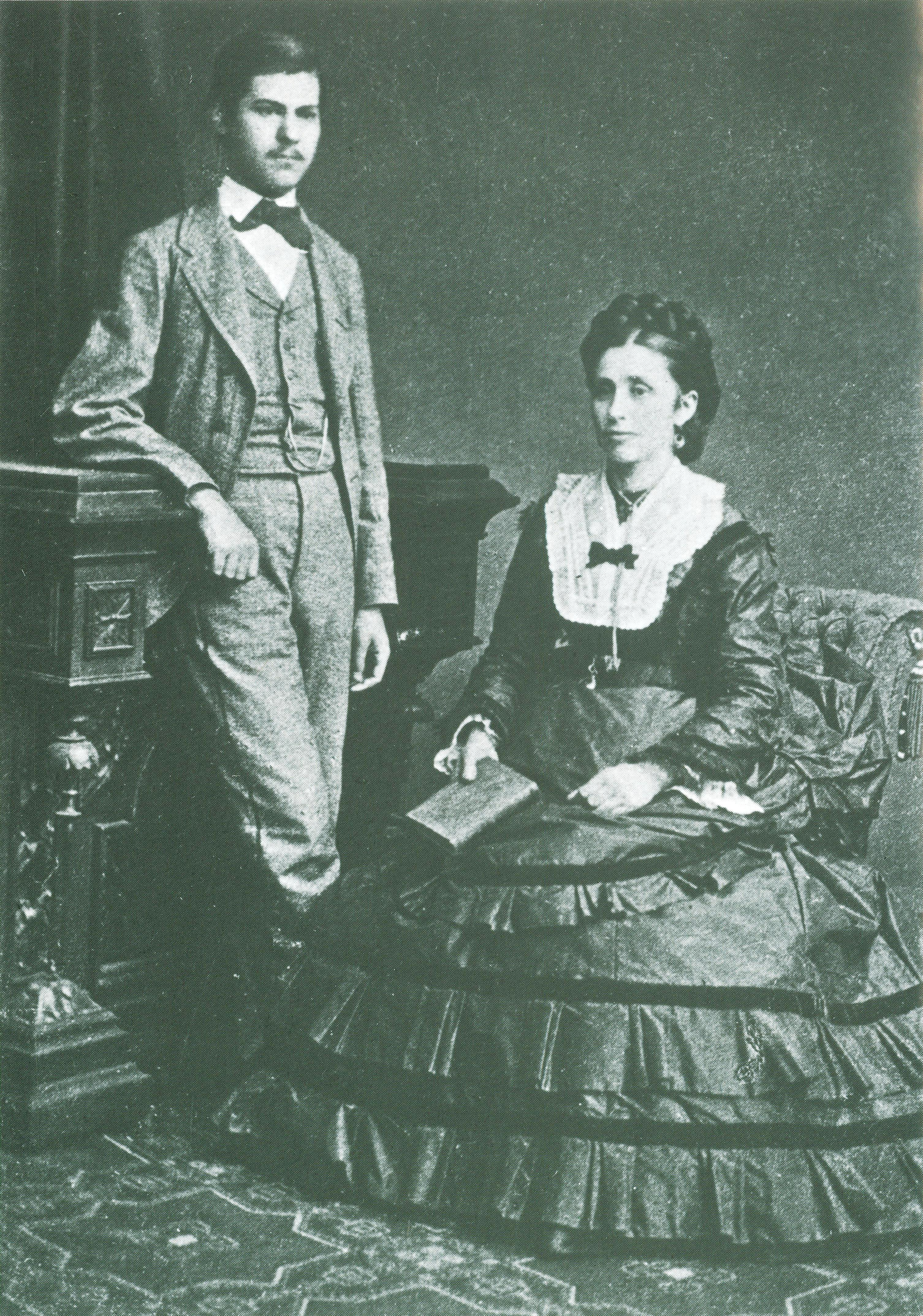 16 years old Sigmund Freund and his mother Amalia